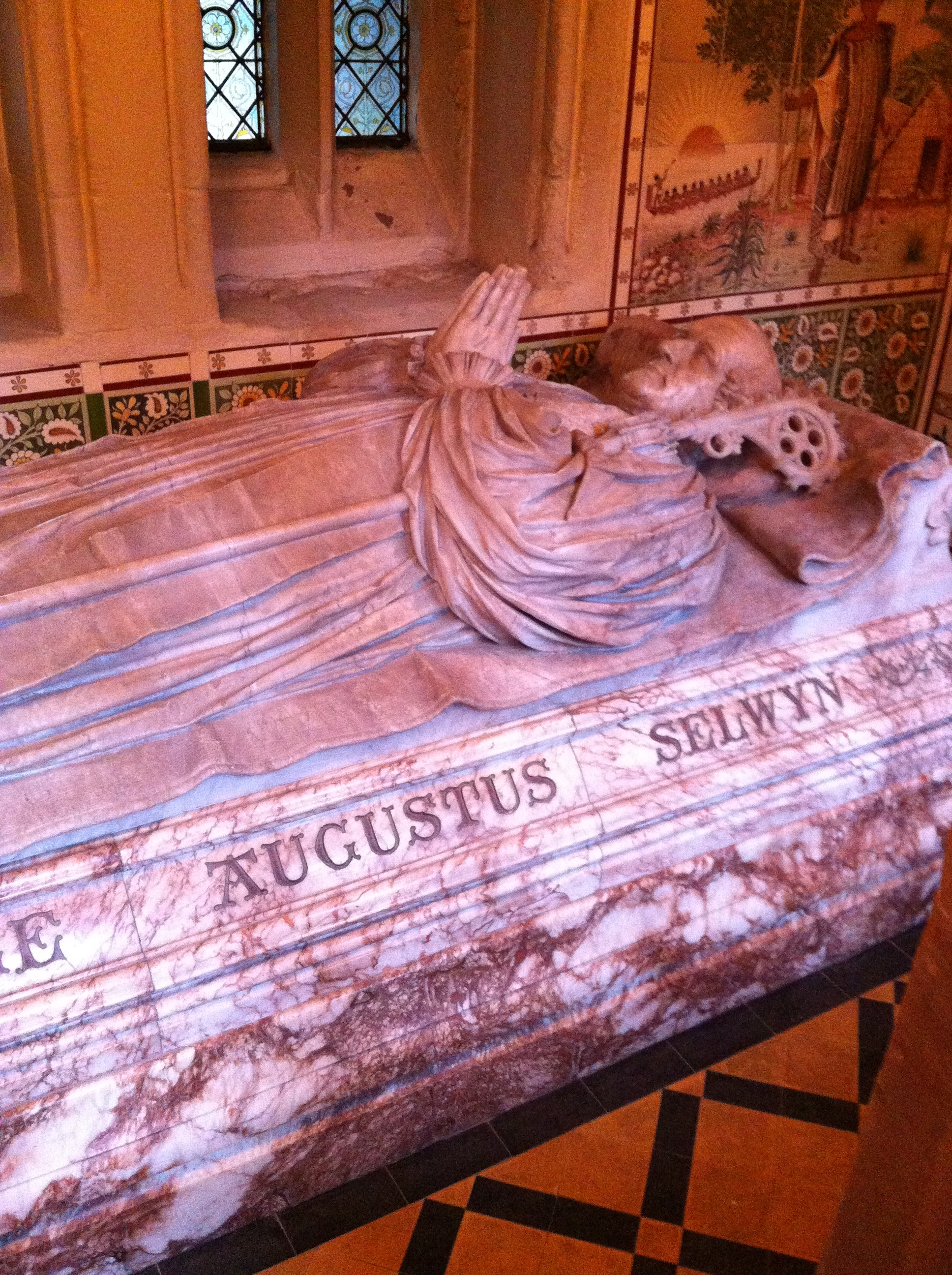 Memorial to George Augustus Selwyn in Lichfield Cathedral